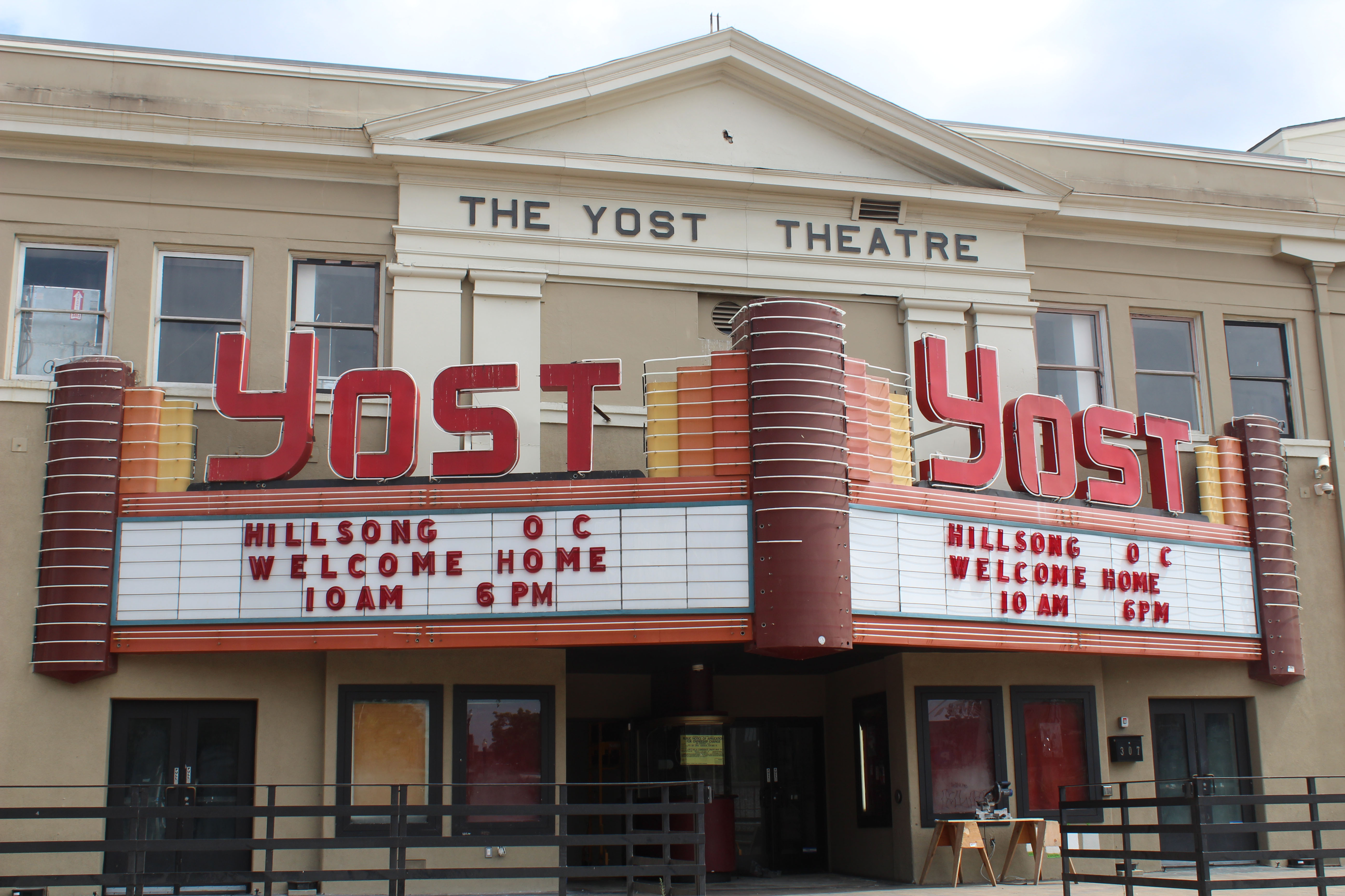 The iconic Front entrance of the Yost Theatre.